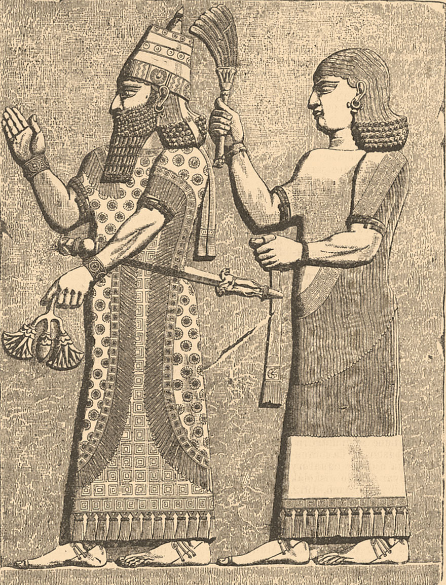 Illustration from Brockhaus and Efron Jewish Encyclopedia (1906—1913)